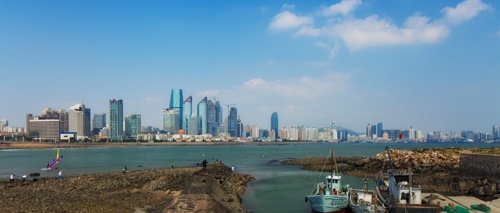 Qingdao picture